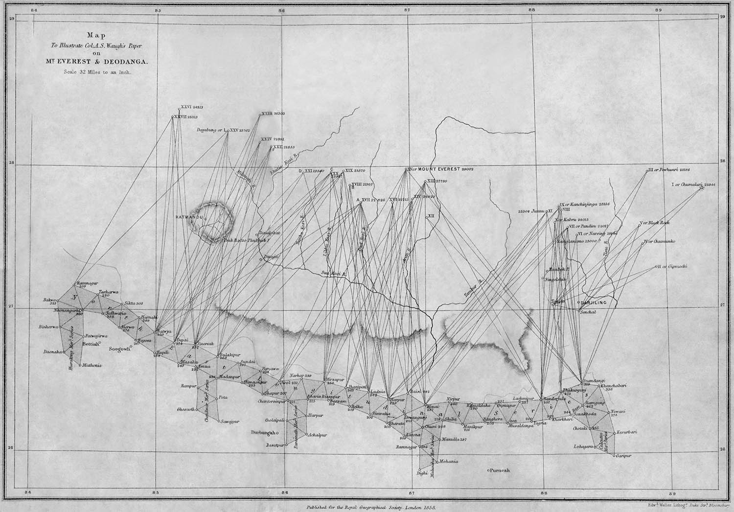 Map to illustrate Col A. S. Waugh paper on Mt Everest and Deodanga